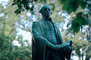 The statue, a gift to Washington College by sculptor Lee Lawrie, was installed in 1957 to commemorate the 175th anniversary of the founding of Washington College. It looks over the campus green.